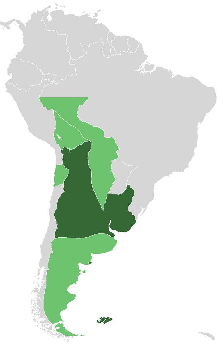 United Provinces of the South - Map (Year 1816 Aprox.)